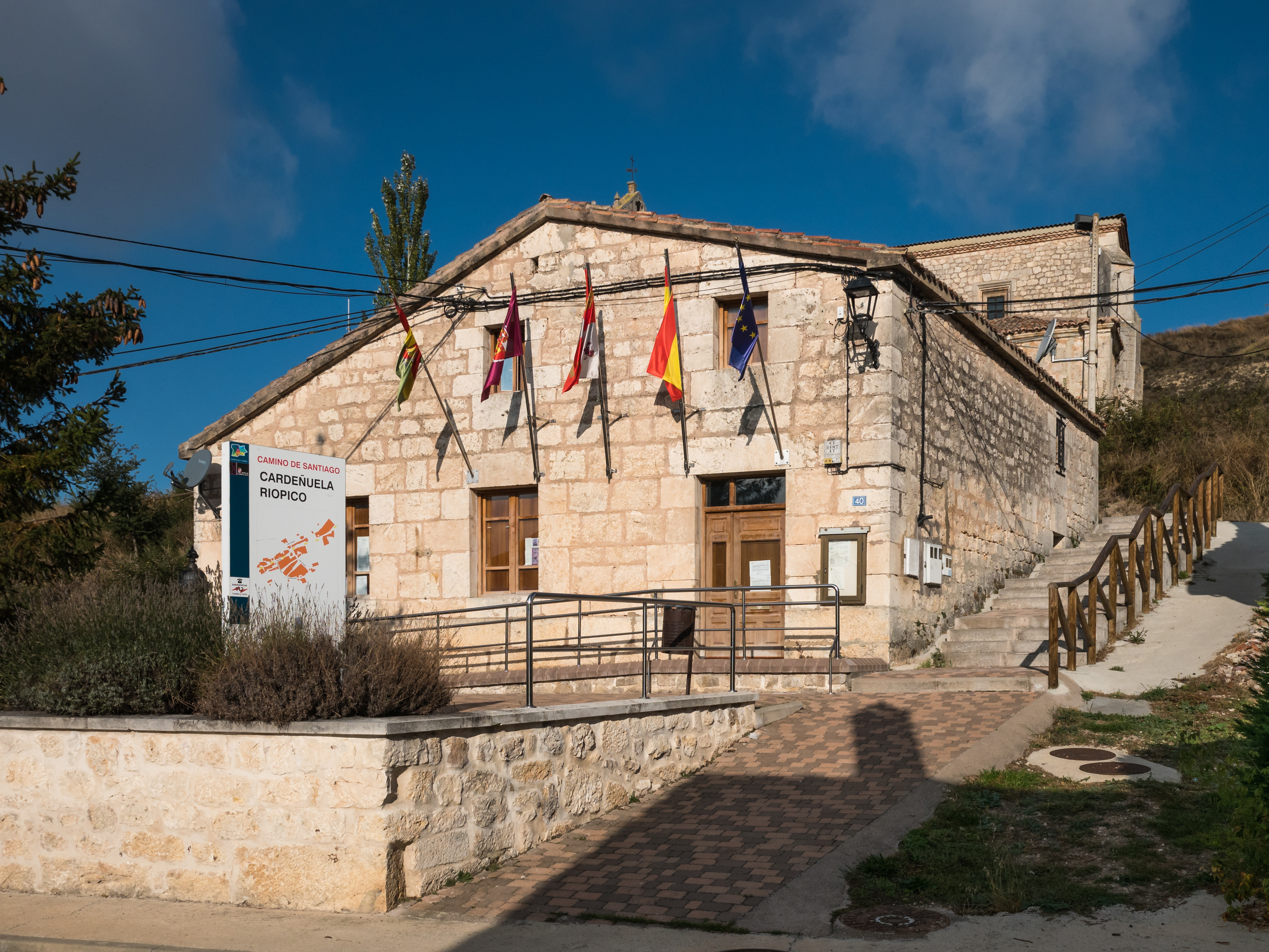 Town Hall of Cardeñuela Riopico. Burgos, Castilla-León, Spain